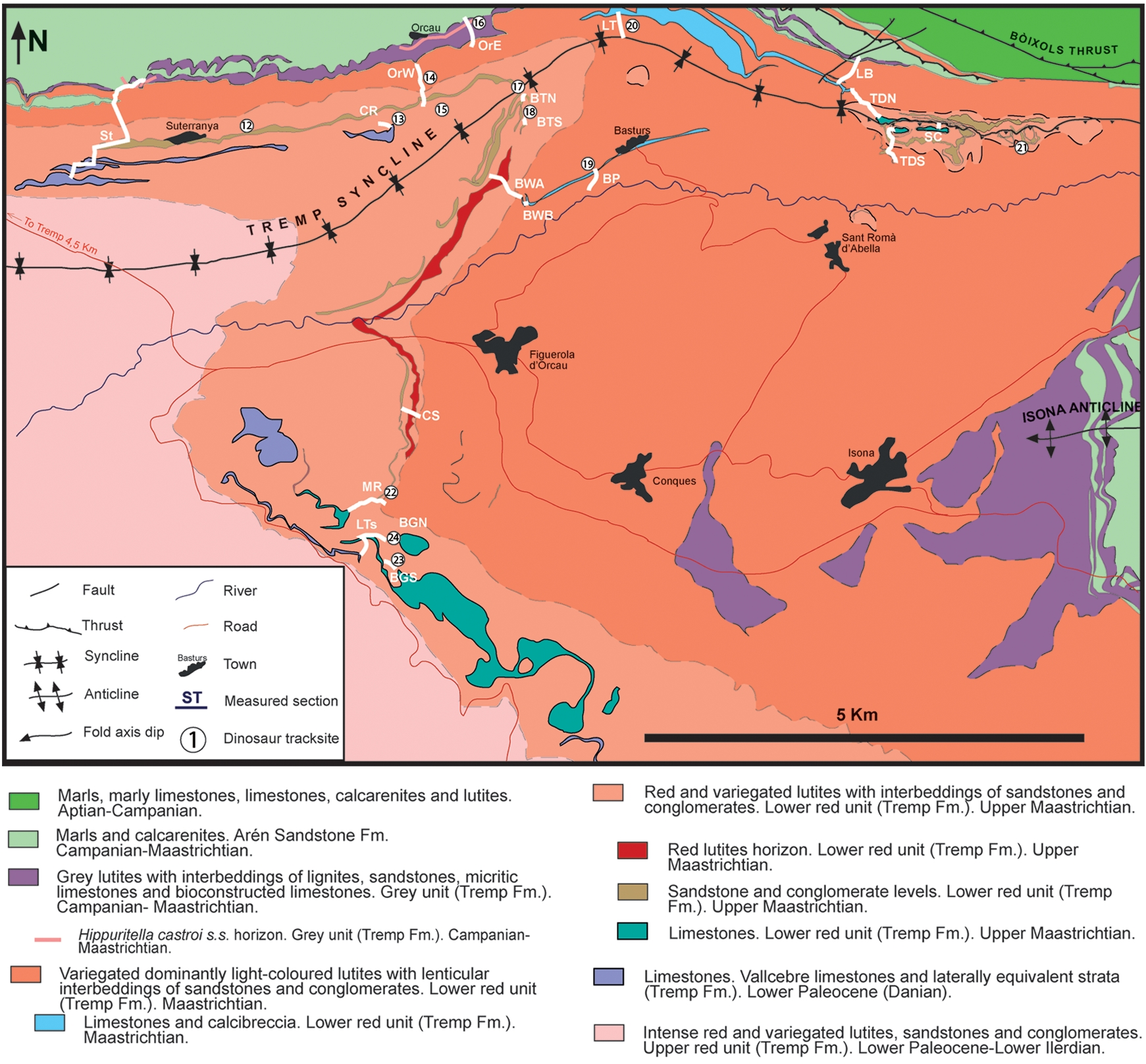 Units of the Tremp Formation in the Tremp Basin. Page 3 of: Vila, Bernat (2013). "The Latest Succession of Dinosaur Tracksites in Europe: Hadrosaur Ichnology, Track Production and Palaeoenvironments". PLoS One 8: 1–15. Retrieved on 2018-05-24.